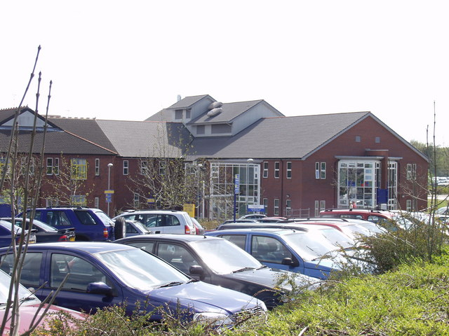 Ysbyty Maelor Wrecsam. (Wrexham Maelor Hospital) Latest addition to this ever growing modern hospital.